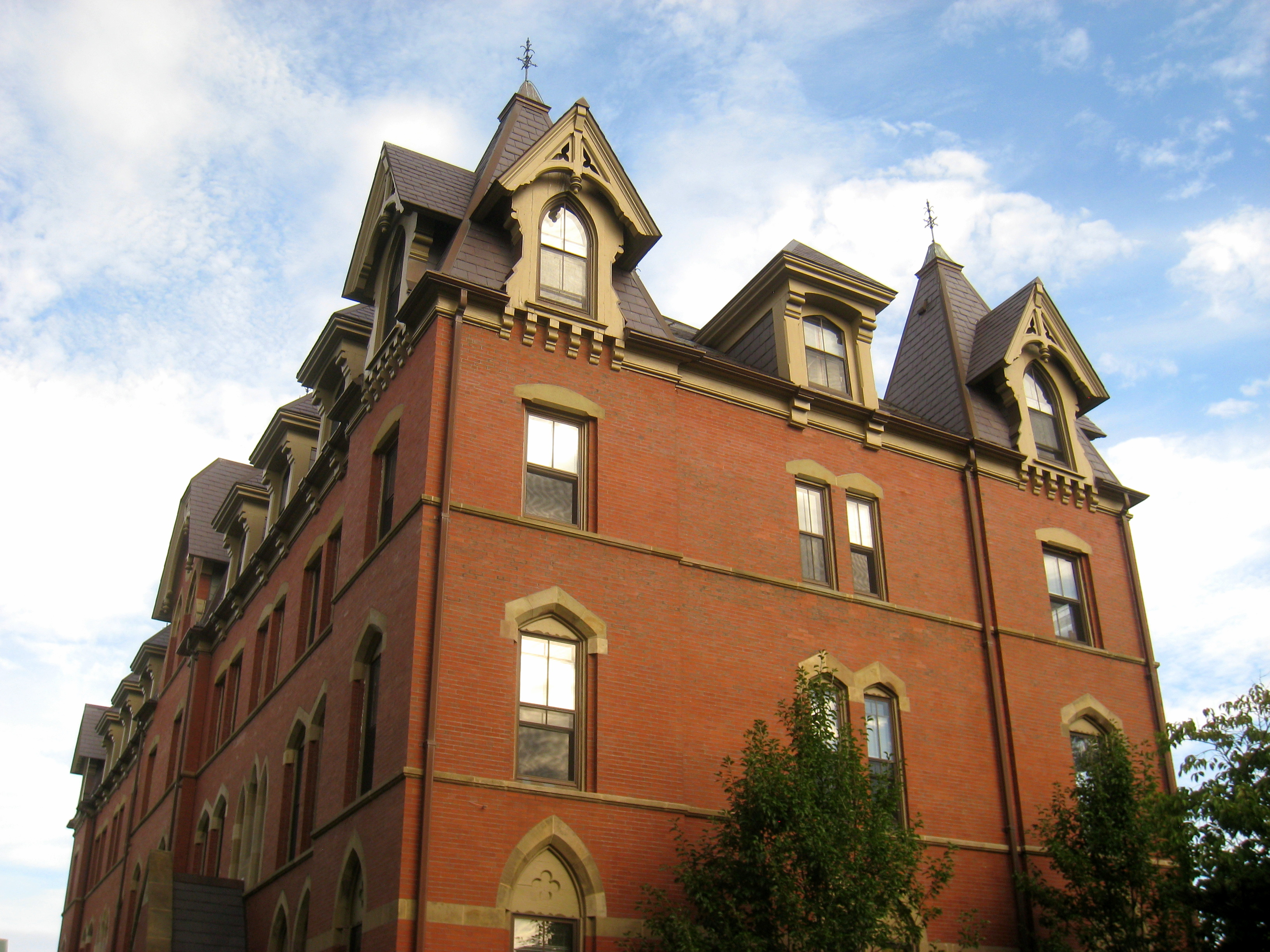 West Hall, at Tufts University, Medford, Massachusetts, USA.